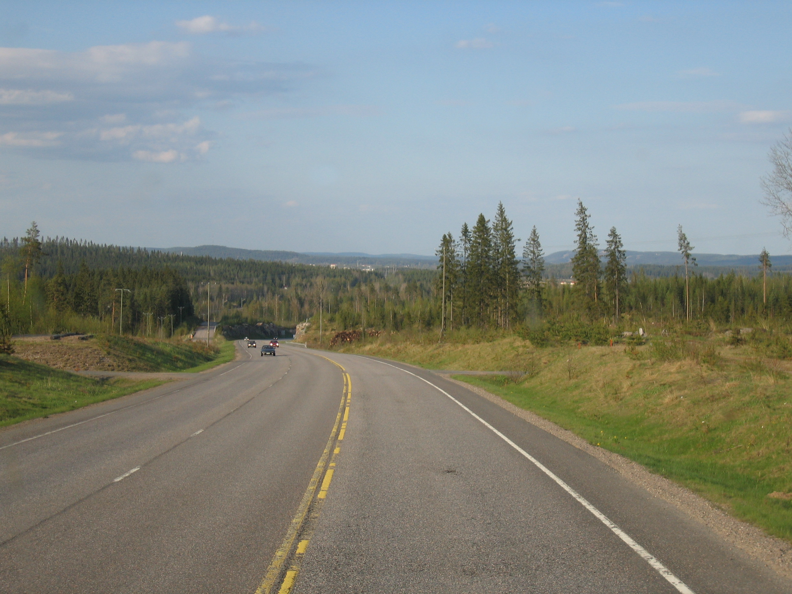 Road with overtaking lane in Jämsä, Finland (national road 9, E63).